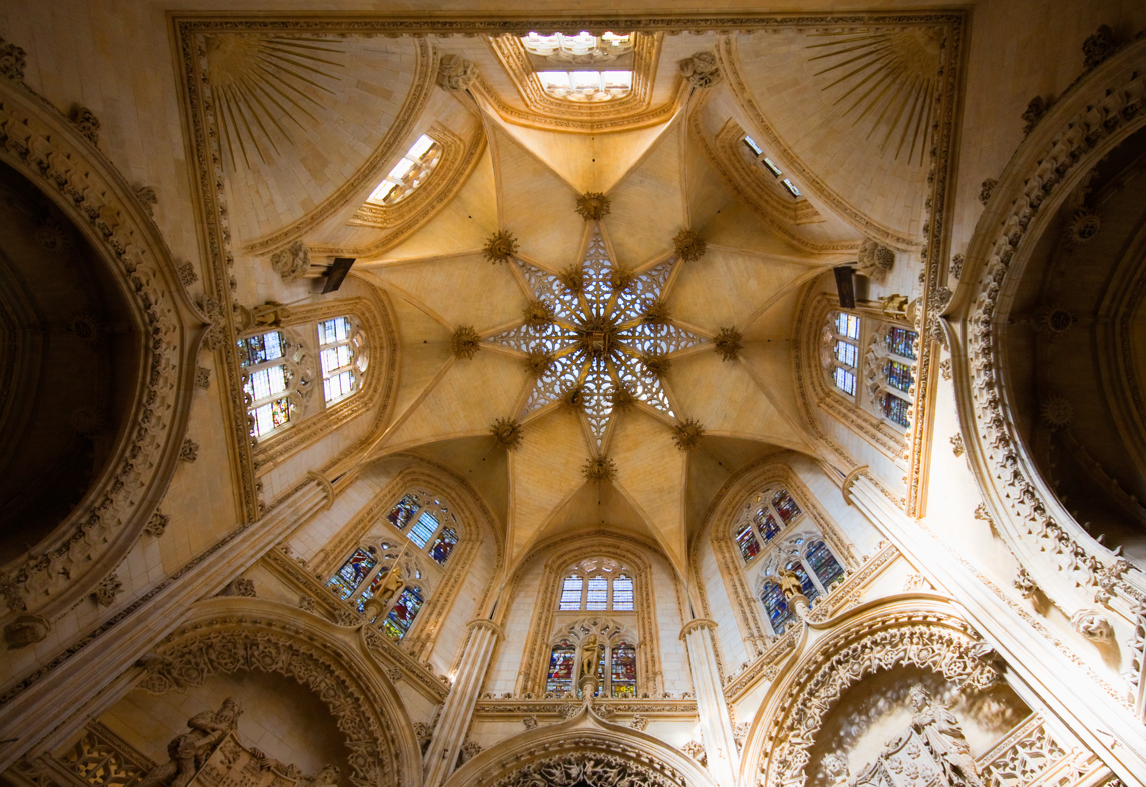 Interior of the Condestable chapel